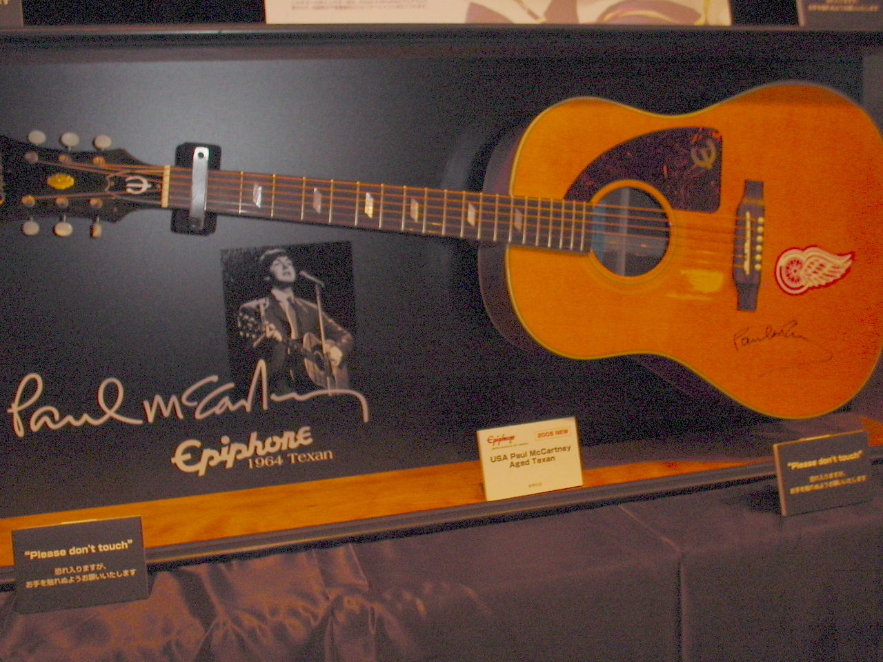 Epiphone 1964 Texan (USA Paul McCartney Aged Texan)